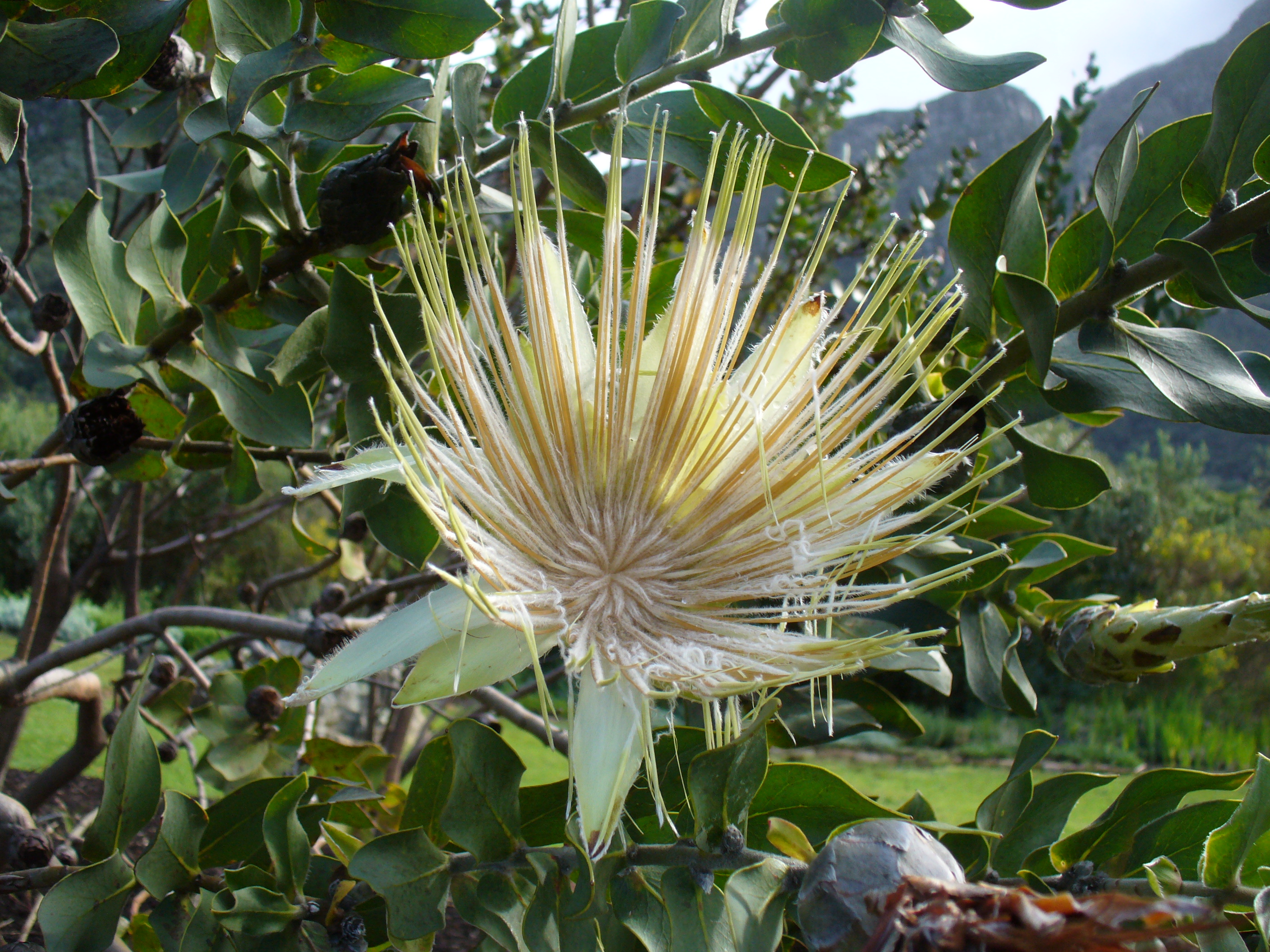 Protea aurea subsp. potbergensis, Kirstenbosch Gardens Cape Town.